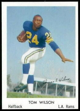 A 1959 promotional image of Los Angeles Rams player Tom Wilson.